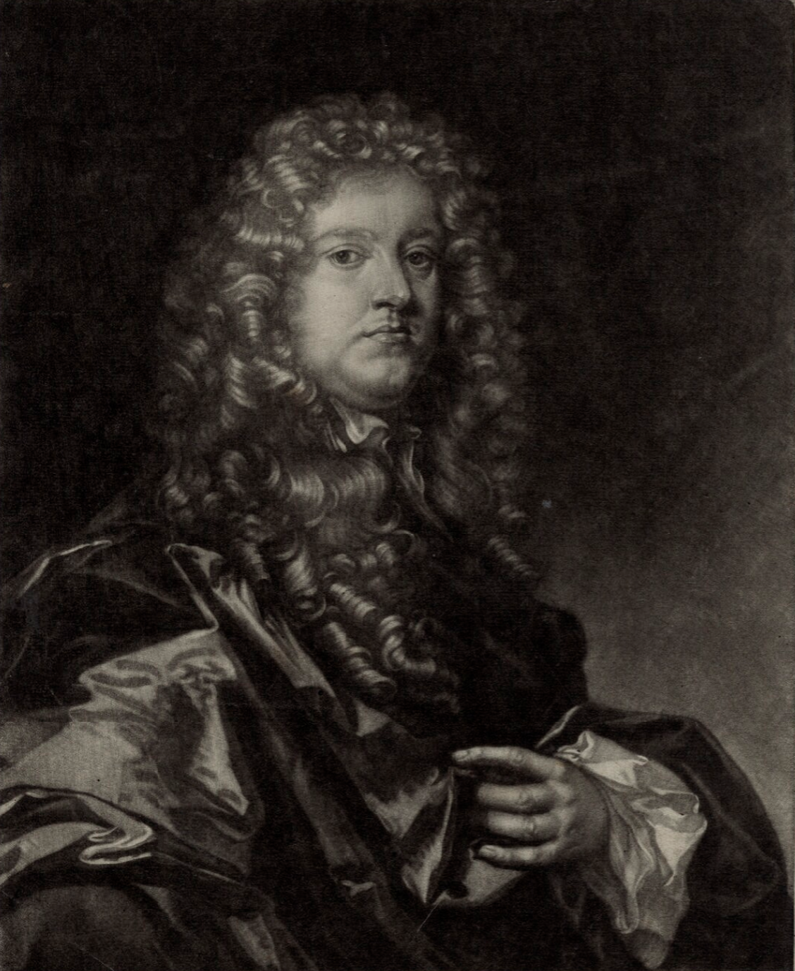 Portrait of Sir Ralph Cole, 2nd Baronet (1629–1704), English politician and amateur artist.